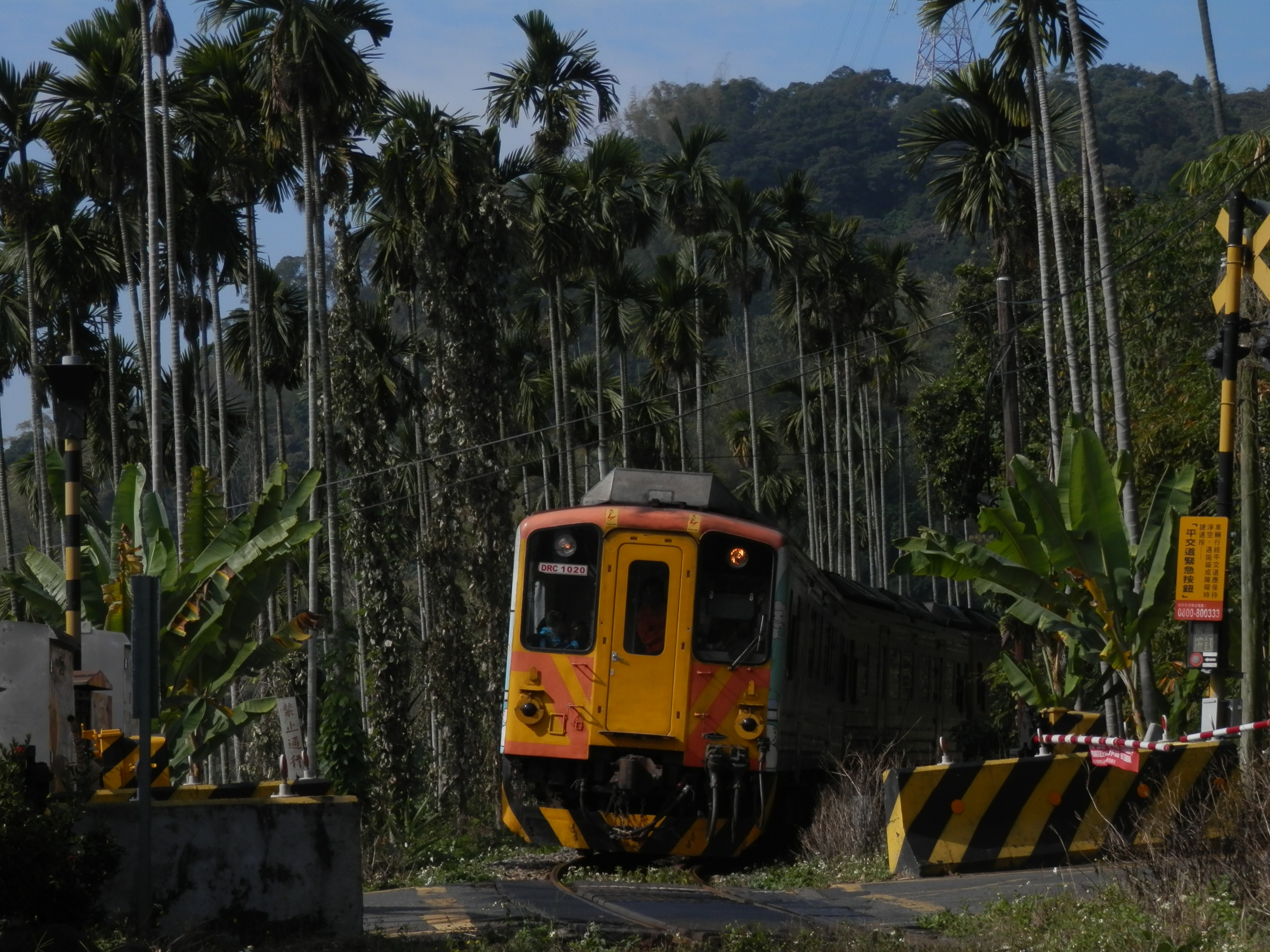 TRA Diesel Railcar type DR1000 at Jiji Line between Longquan Station and Jiji Station